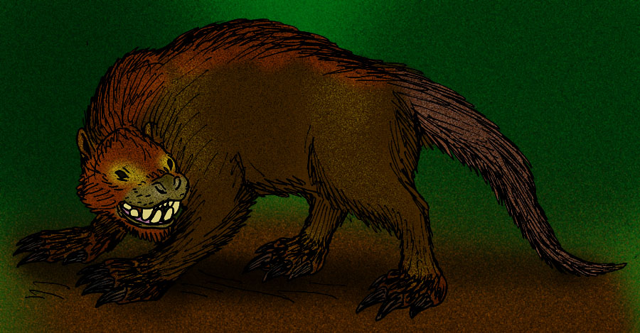 My reconstruction of the taeniodont, Stylinodon mirus, from Middle Eocene Wyoming (C) Stanton F. Fink